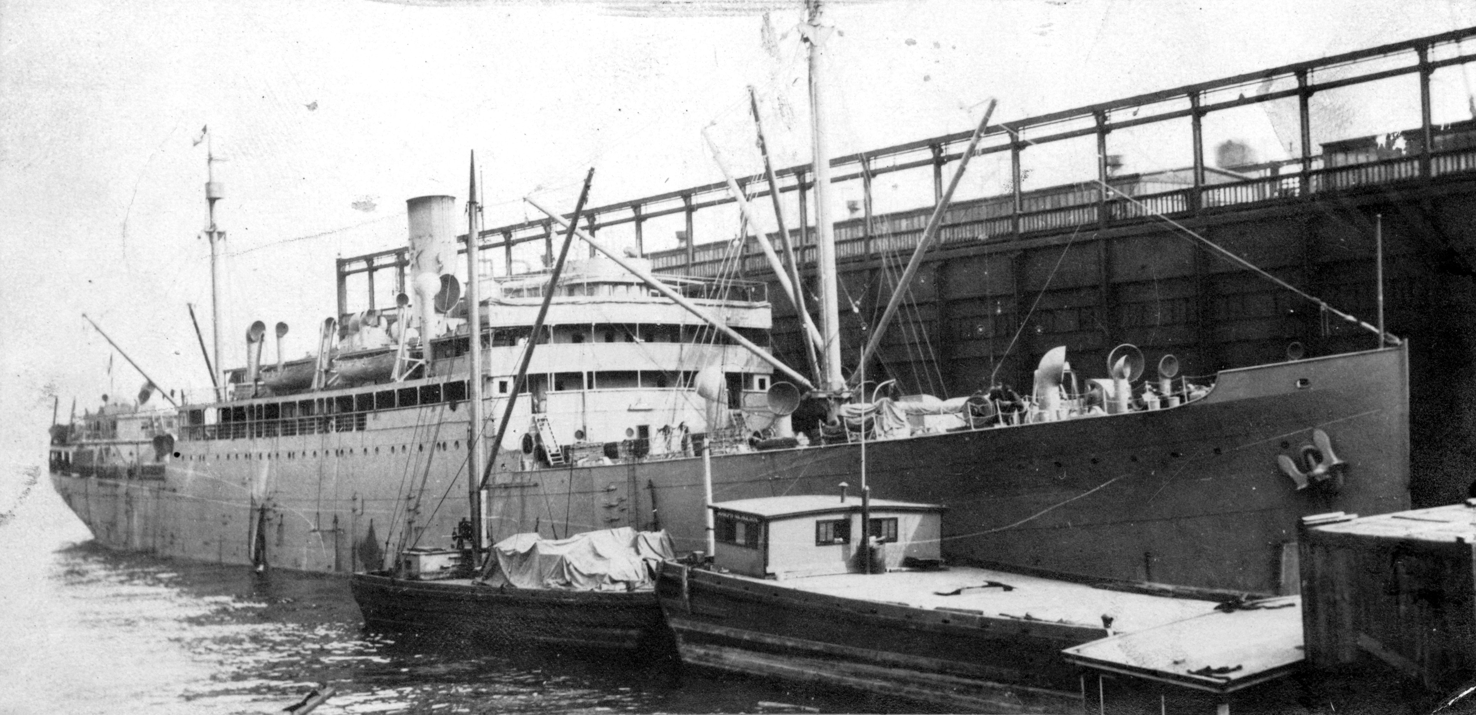 USS Henry R. Mallory (ID # 1280) In port, circa 1918-1919. U.S. Naval Historical Center Photograph.